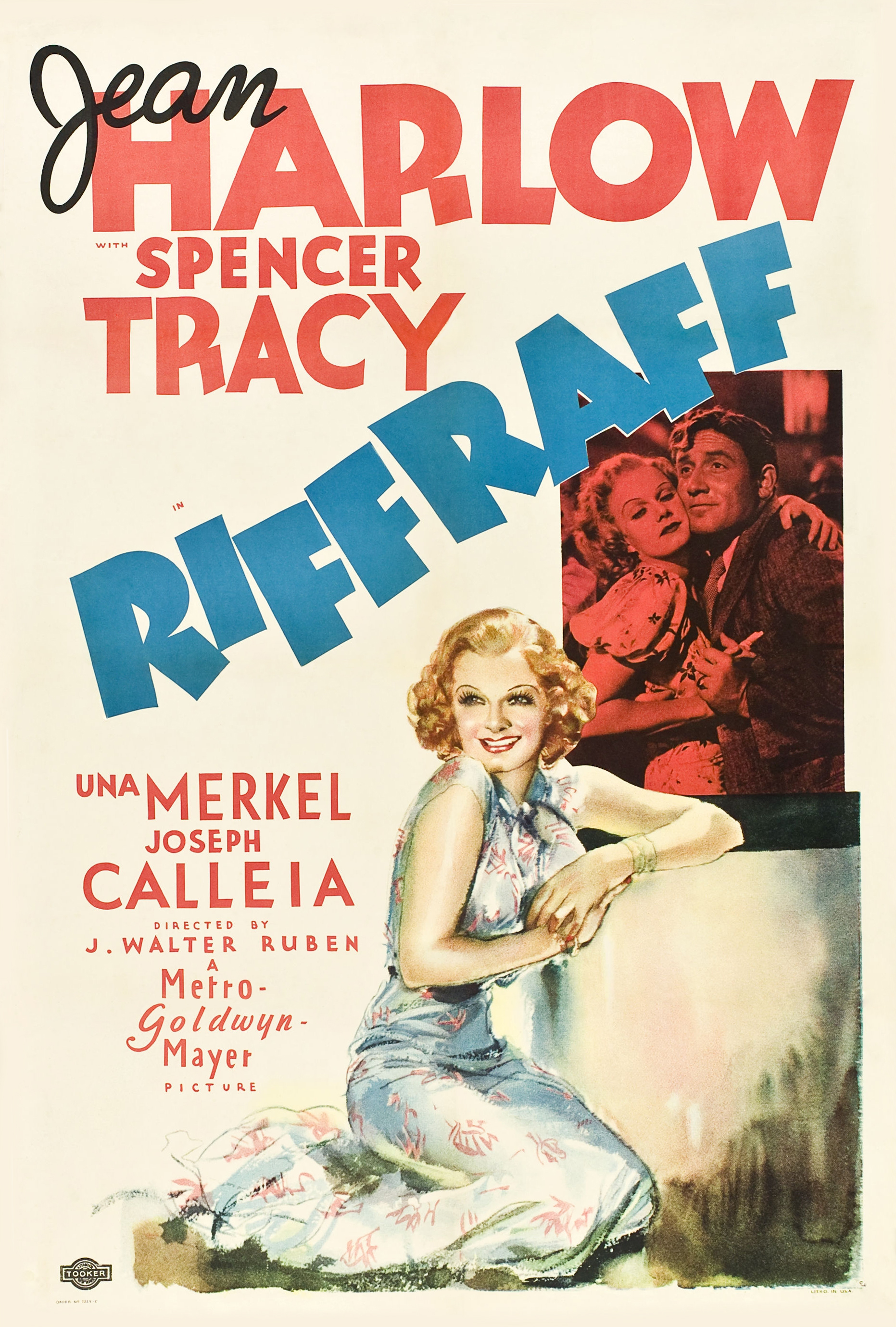 Poster for the 1936 film Riffraff. The item has no copyright marks on it as can be seen at links and original upload. At bottom left is a logo for Tooker Litho Company--they printed the poster--and the poster's order number. At Right is Litho in USA.